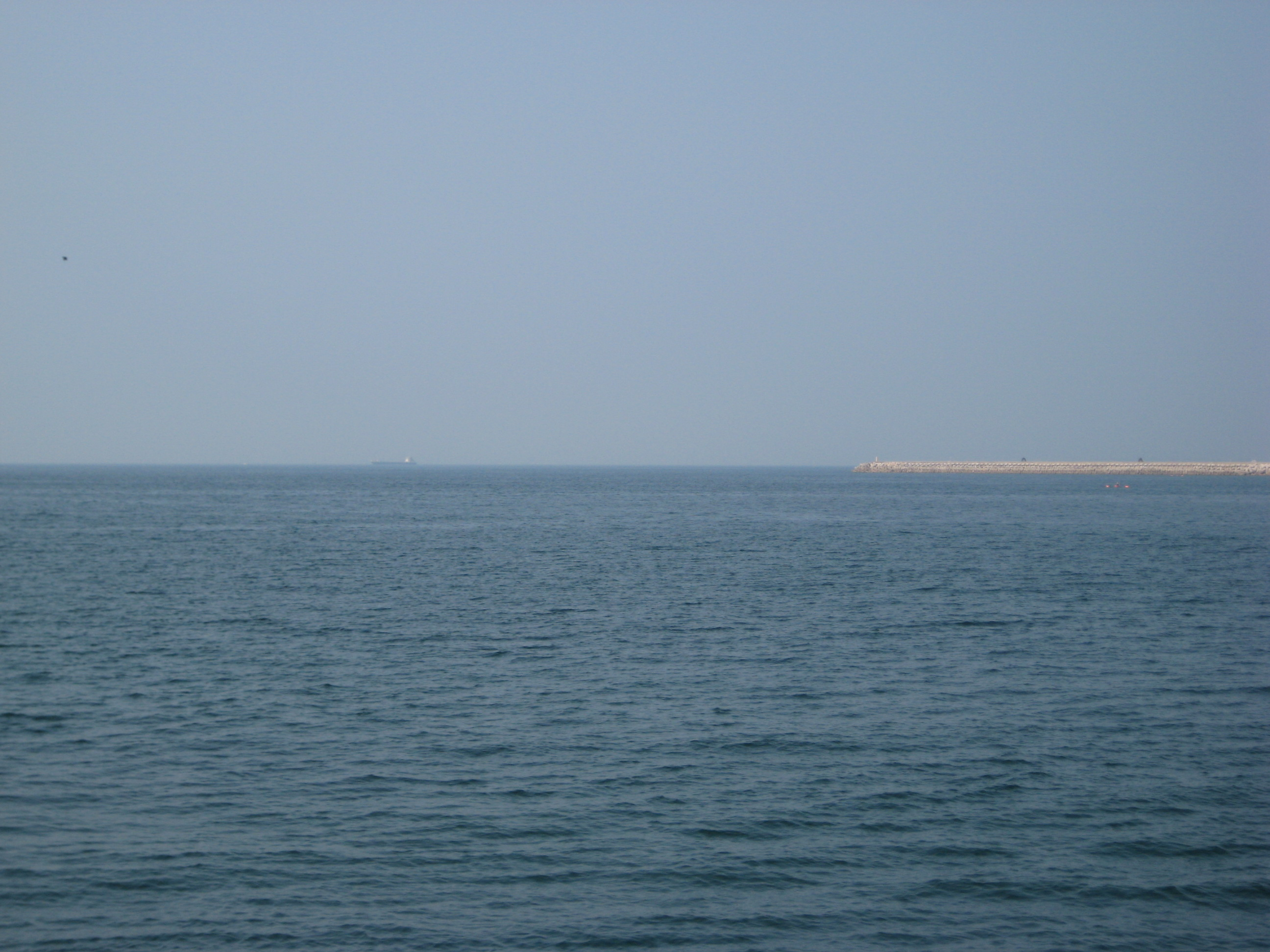 hibikinada